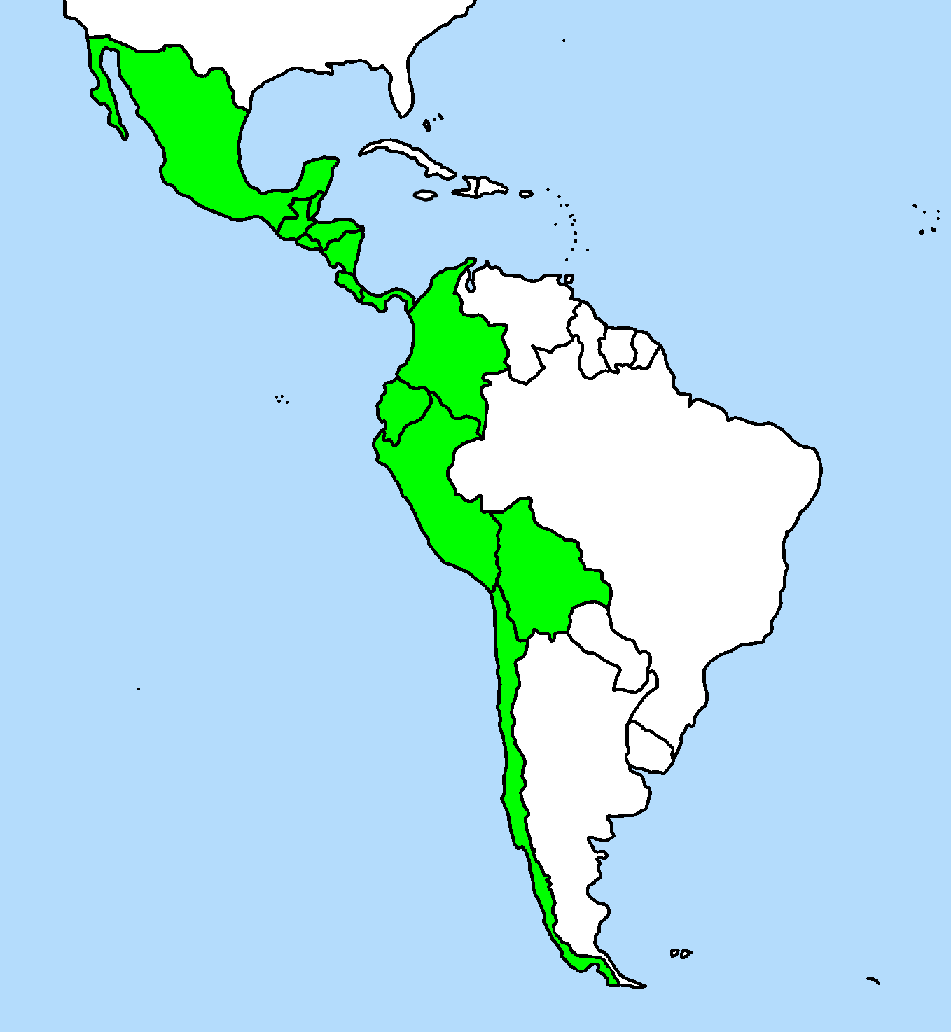 Countries that cultivate Capsicum pubescens commercially. Based on: Image:A_large_blank_world_map_with_oceans_marked_in_blue.PNG by User:Astrokey44 and User:Denniss, editied by User:Carstor